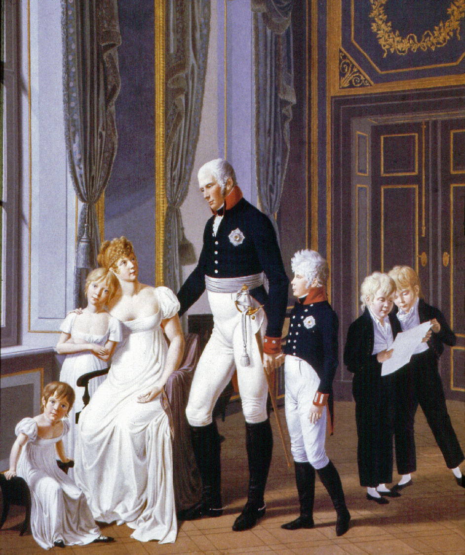 Friedrich Wilhelm III and His Family by Heinrich Anton Dähling (1806).